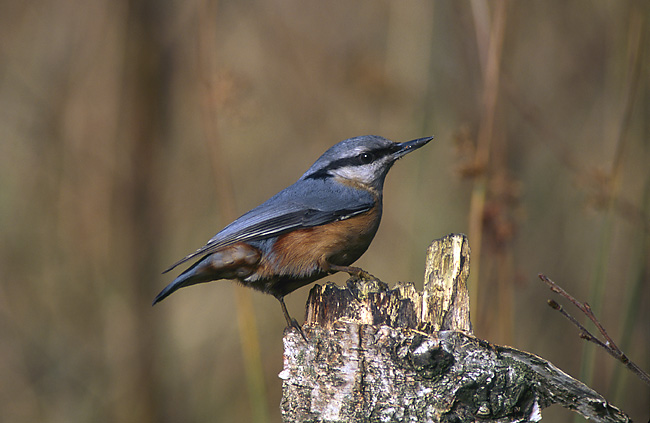 European Nuthatch (Sitta europaea).